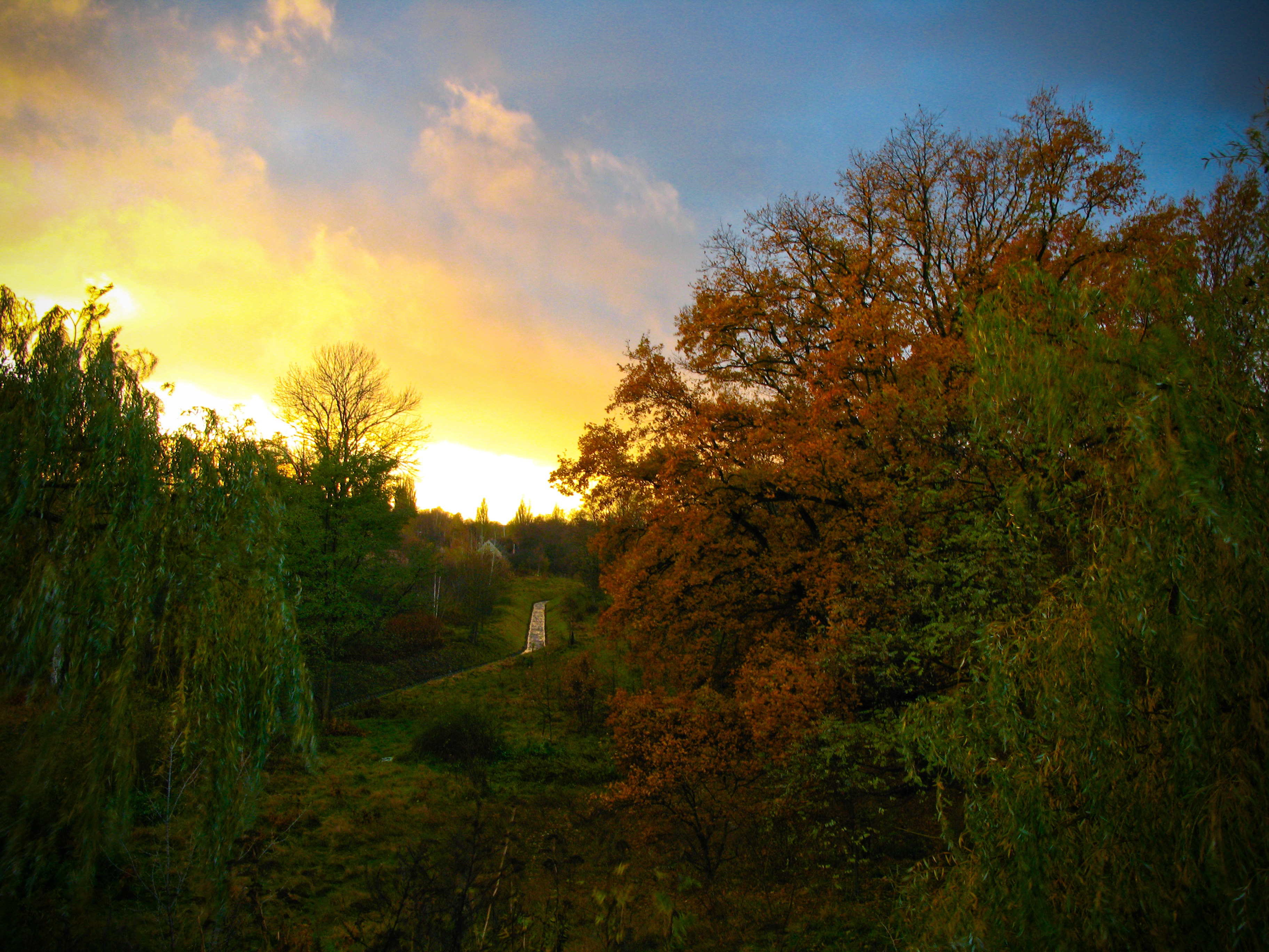 Gęśnik creek valley